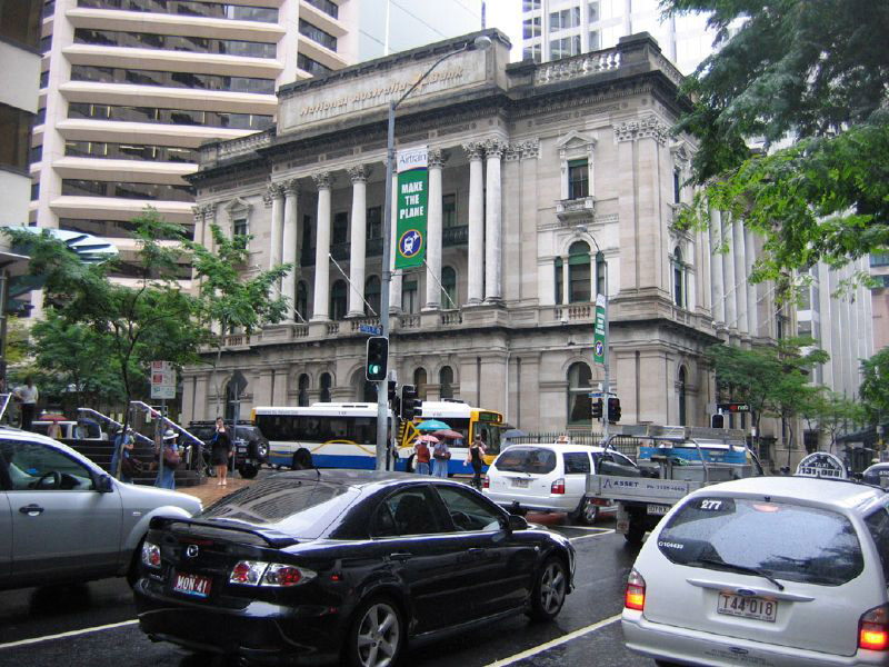 The National Australia Bank in central Brisbane, Queensland.